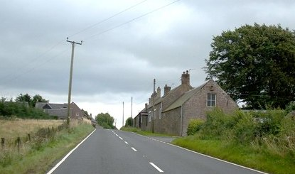 Houndslow, Berwickshire, Scotland.